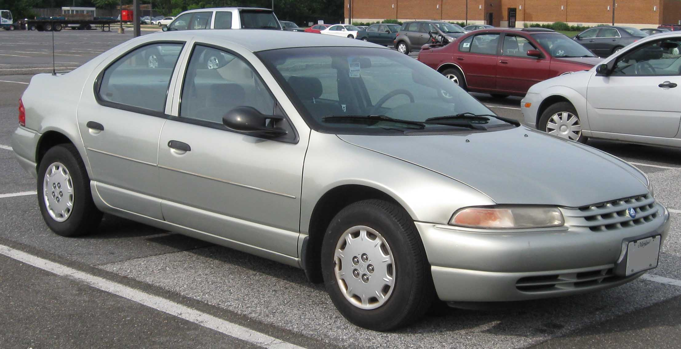 Plymouth Breeze photographed in College Park, Maryland, USA.